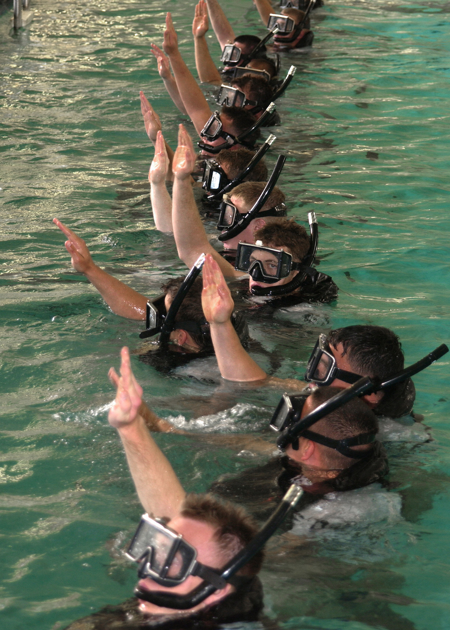 San Diego (May 25, 2005) - Search and Rescue (SAR) students give the "I am all right" signal to let the SAR instructors know that they are ready for further instructions at the pool on board Naval Station San Diego. SAR instructors provide proficiency training, Second Class swim testing, and SAR student training. During SAR school, instructors teach various types of rescue maneuvers to prepare for rescues involving combative or panicky victims, as well as helicopter, forecastle, and Rigid Hull Inflatable Boat (RHIB) rescues. U.S. Navy photo by Photographer's Mate 3rd Class Timothy F. Sosa (RELEASED)